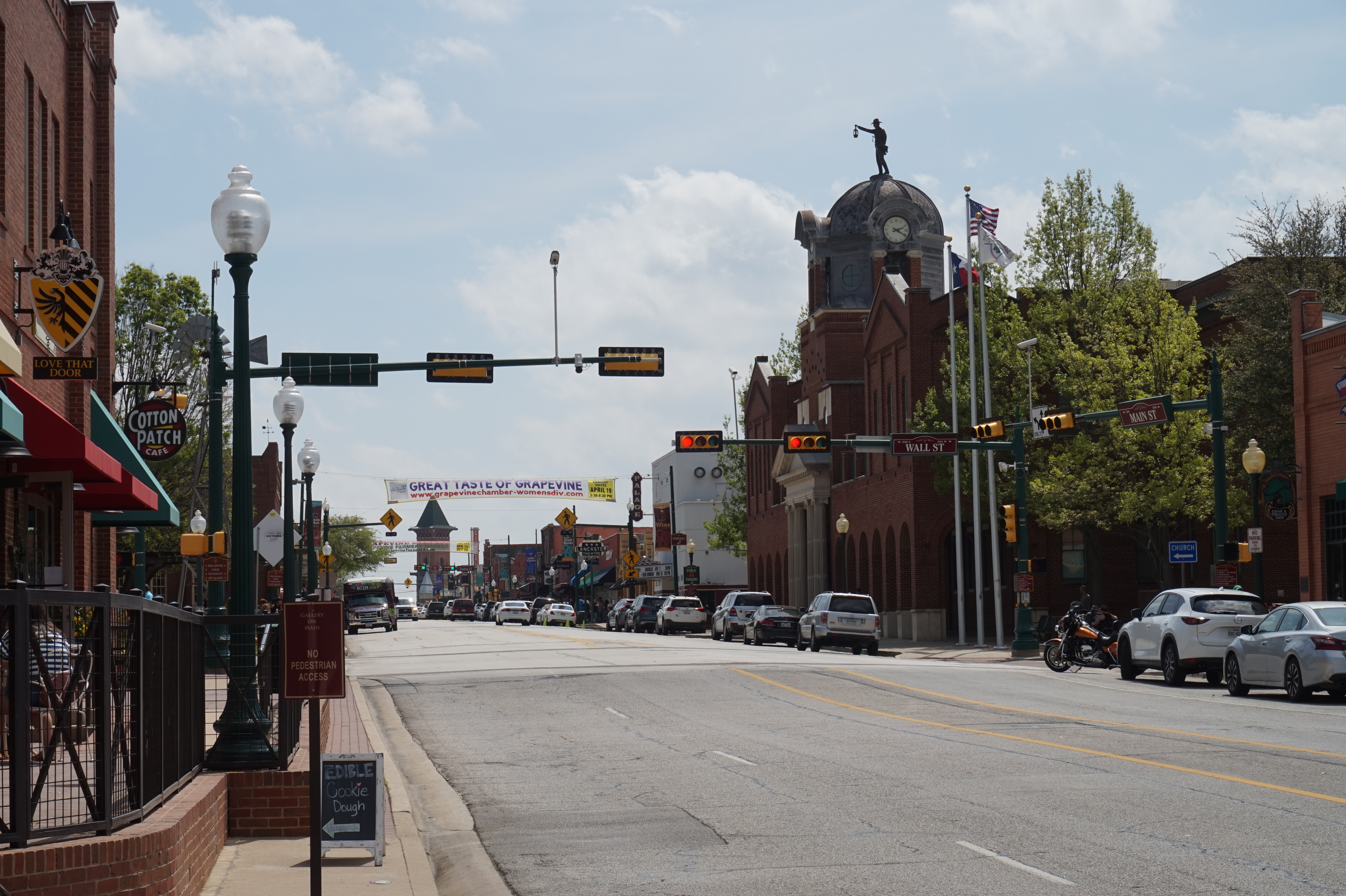 Main Street, Grapevine, Texas, United States.